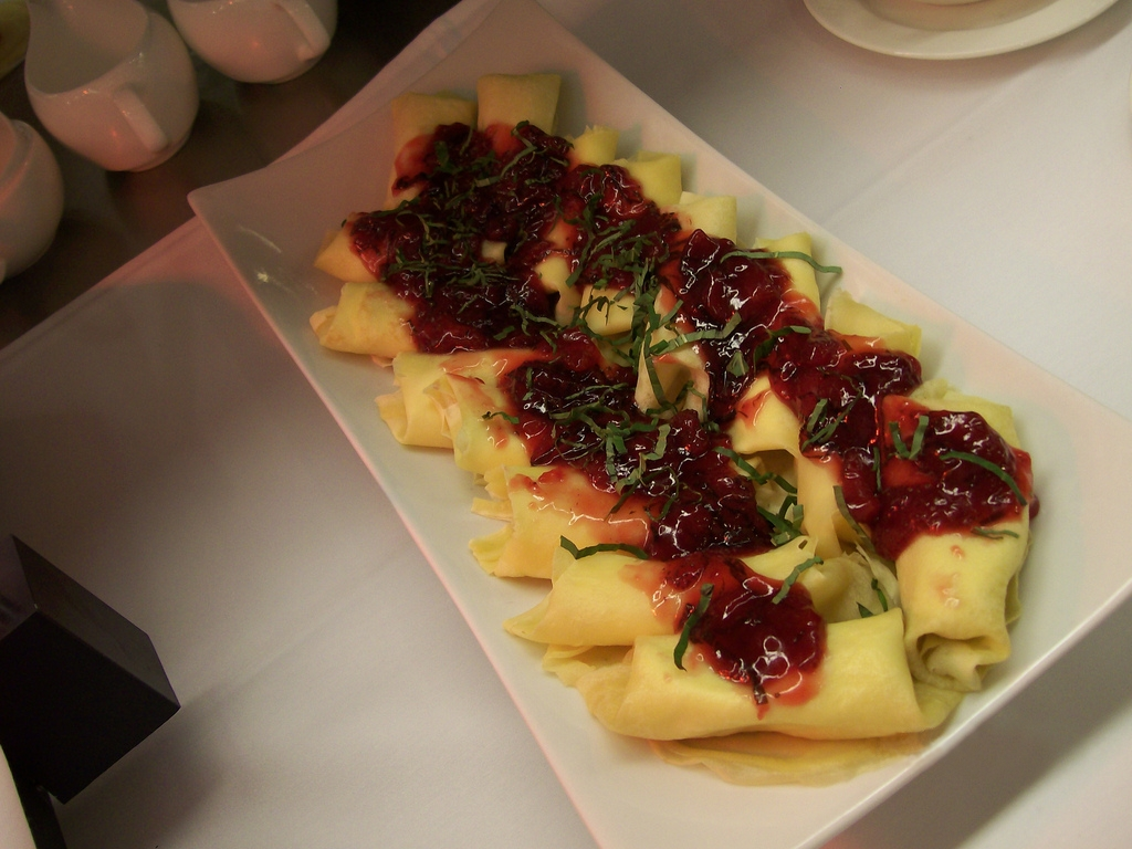 Duck confit crepes with Cumberland sauce and fresh basil.